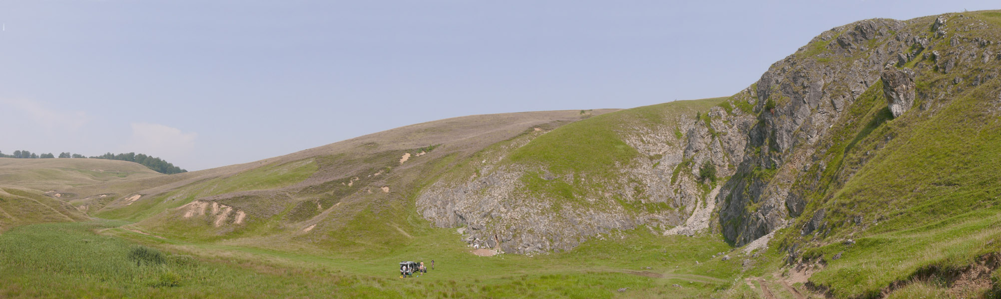 The Toaia karstic Valley, Carpathian Mountains, Romania.